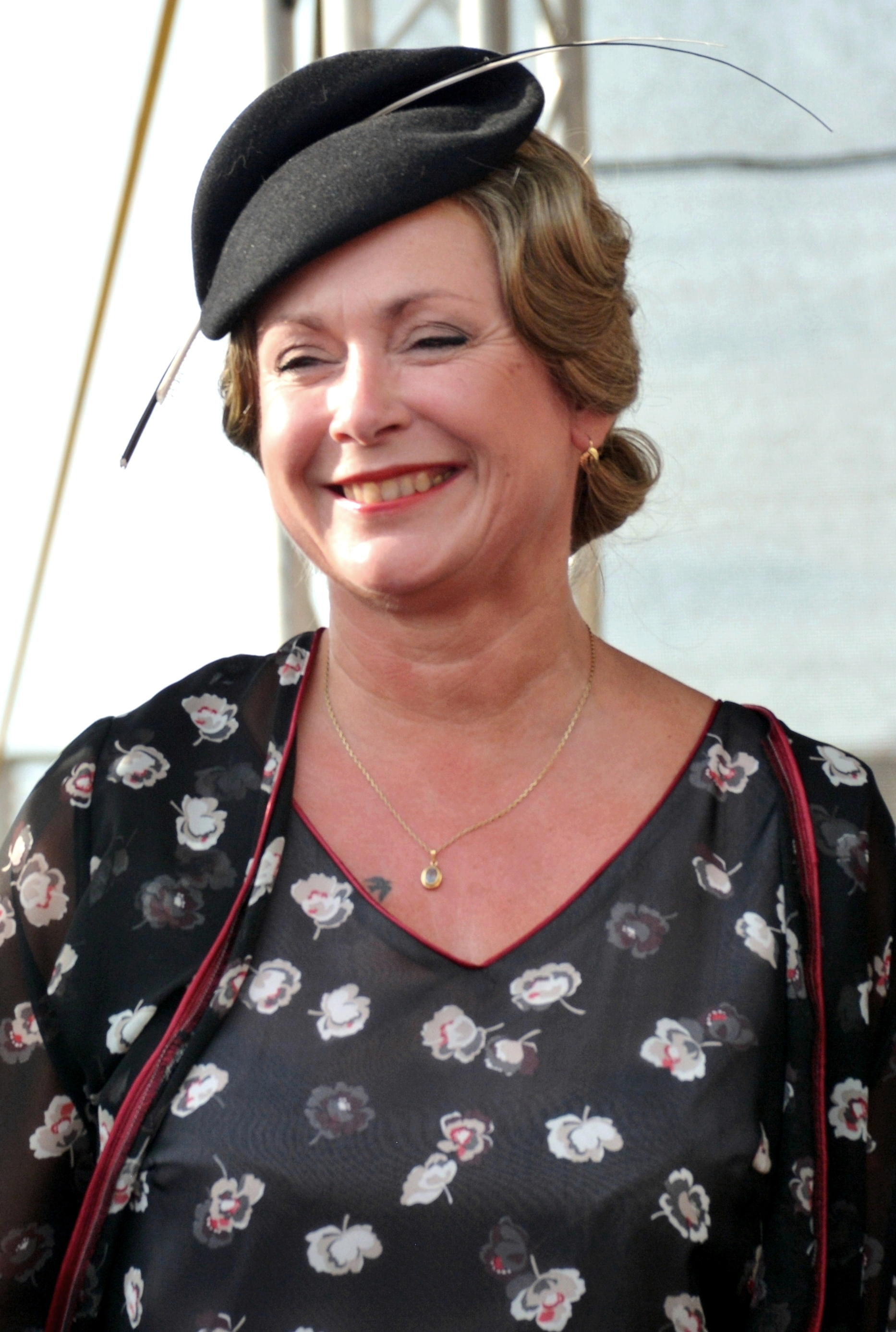 Ilona Svobodová, Czech actress